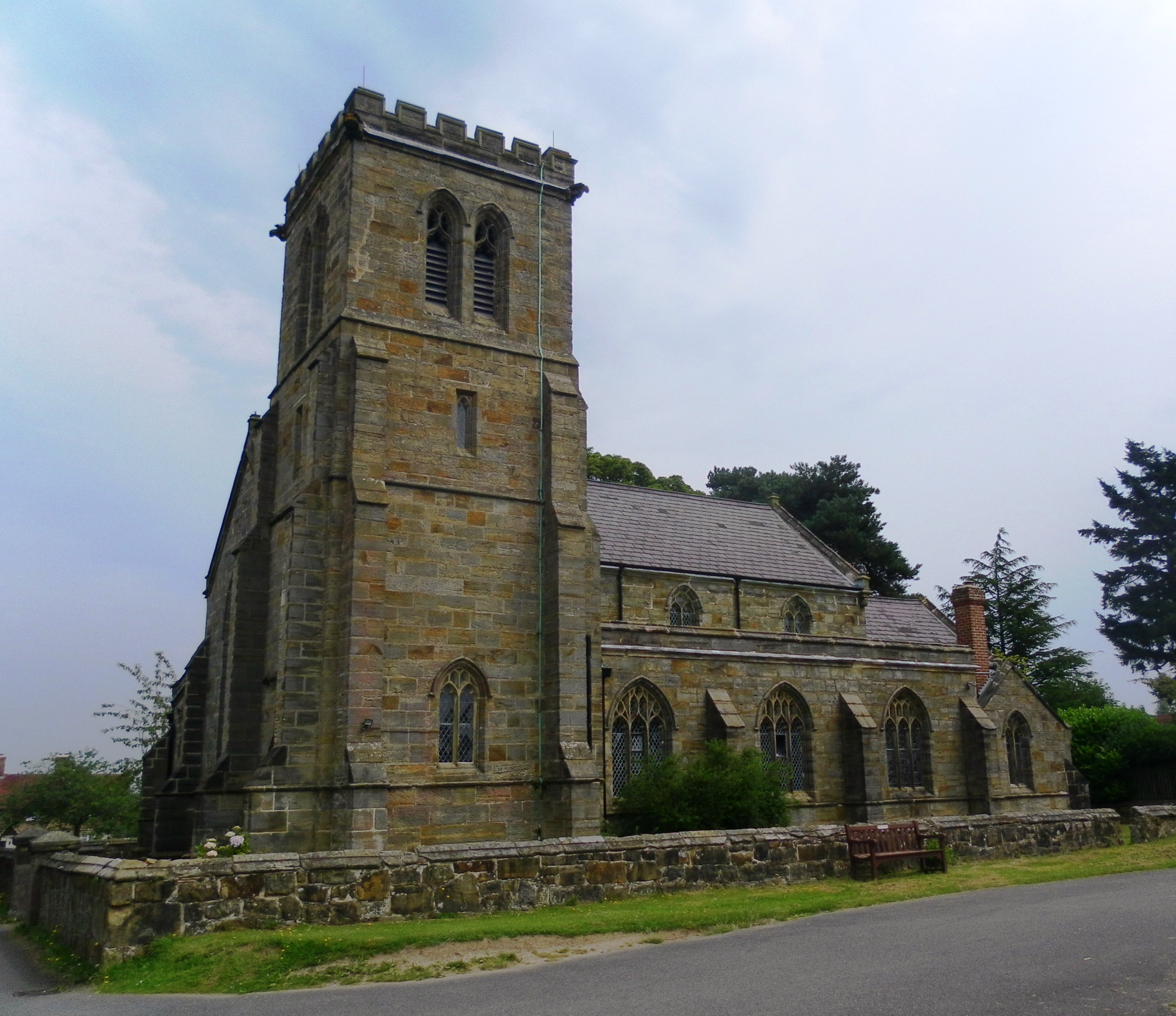 St Peter's Upper Church, Hastings Road, Pembury, Kent, England, seen from the southwest. Built in 1846–47 much closer to the centre of the village than the ancient parish church.